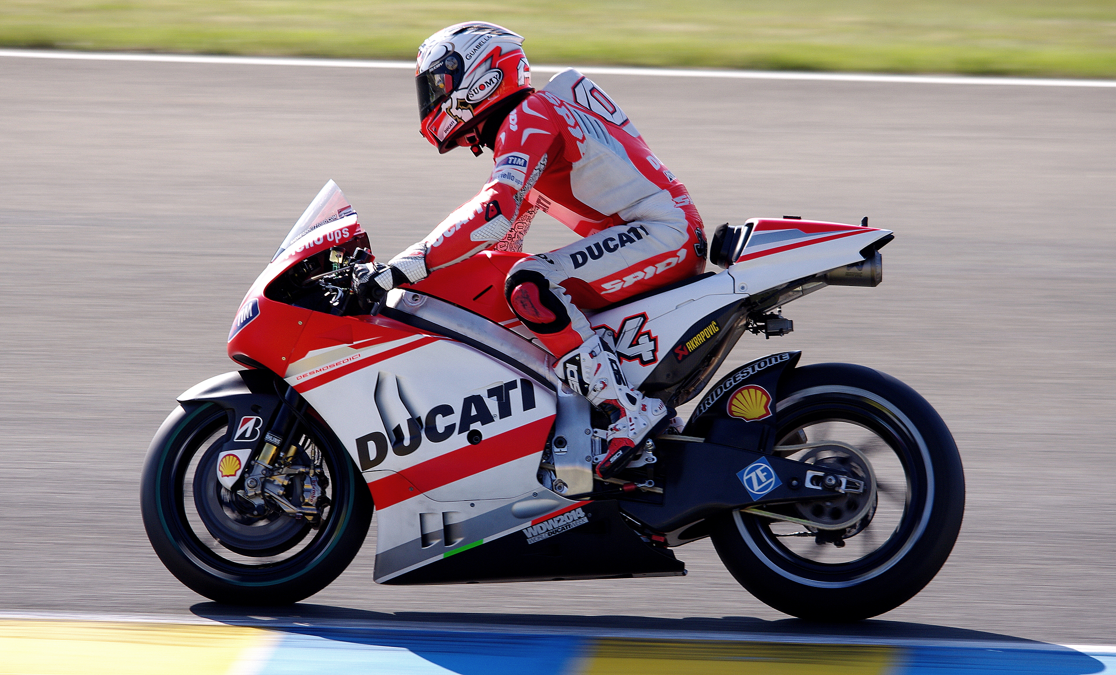 Andrea DOVIZIOSO - Ducati Team - MotoGP 2014 - Le Mans 2014 french motorcycle Grand Prix at Le Mans Bugatti Circuit